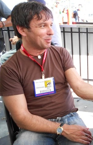 Altman caught on camera getting a fake scar at a special effects booth during Comicon 2011.